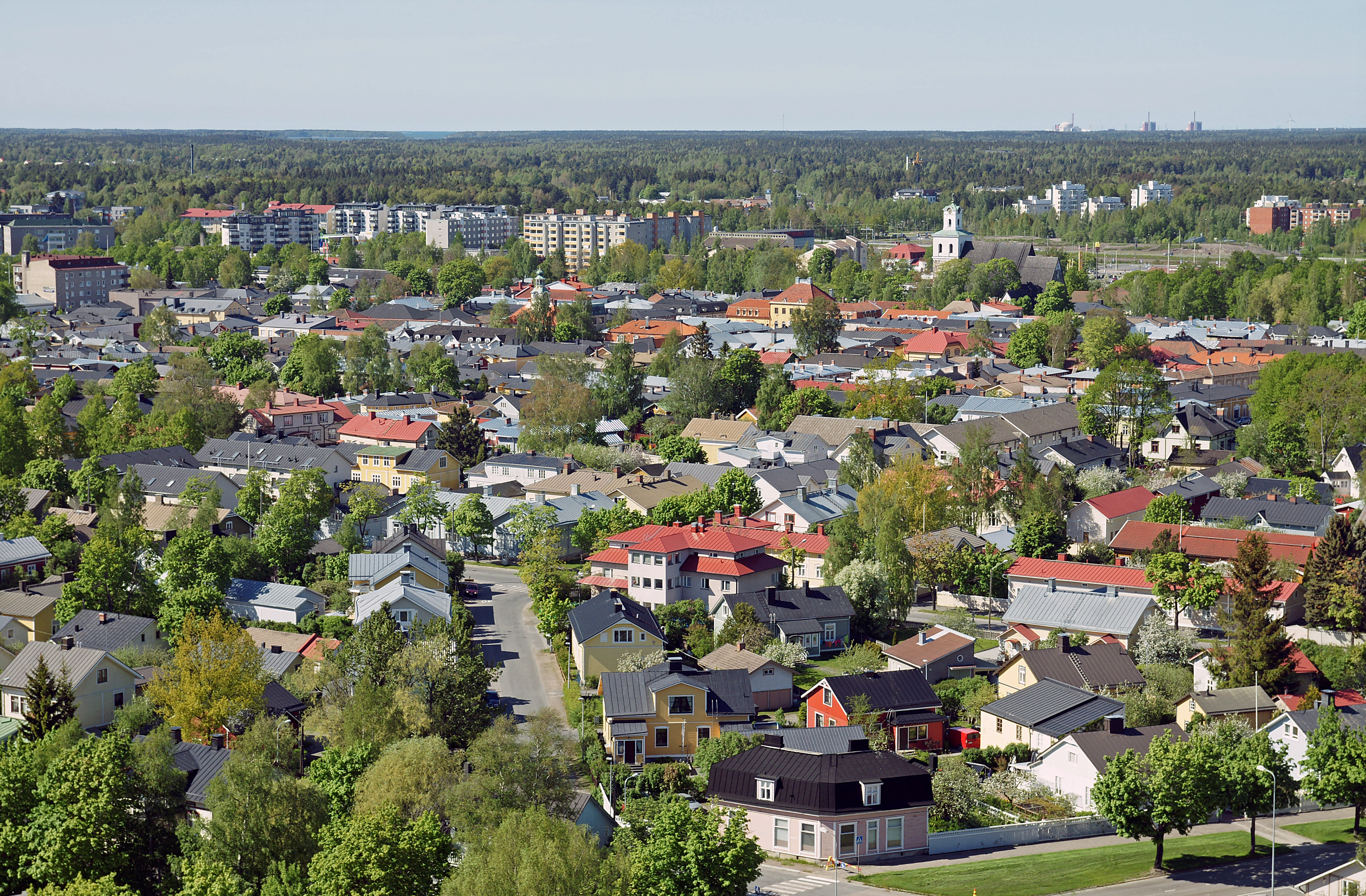 Old Rauma seen from Rauma watertower.